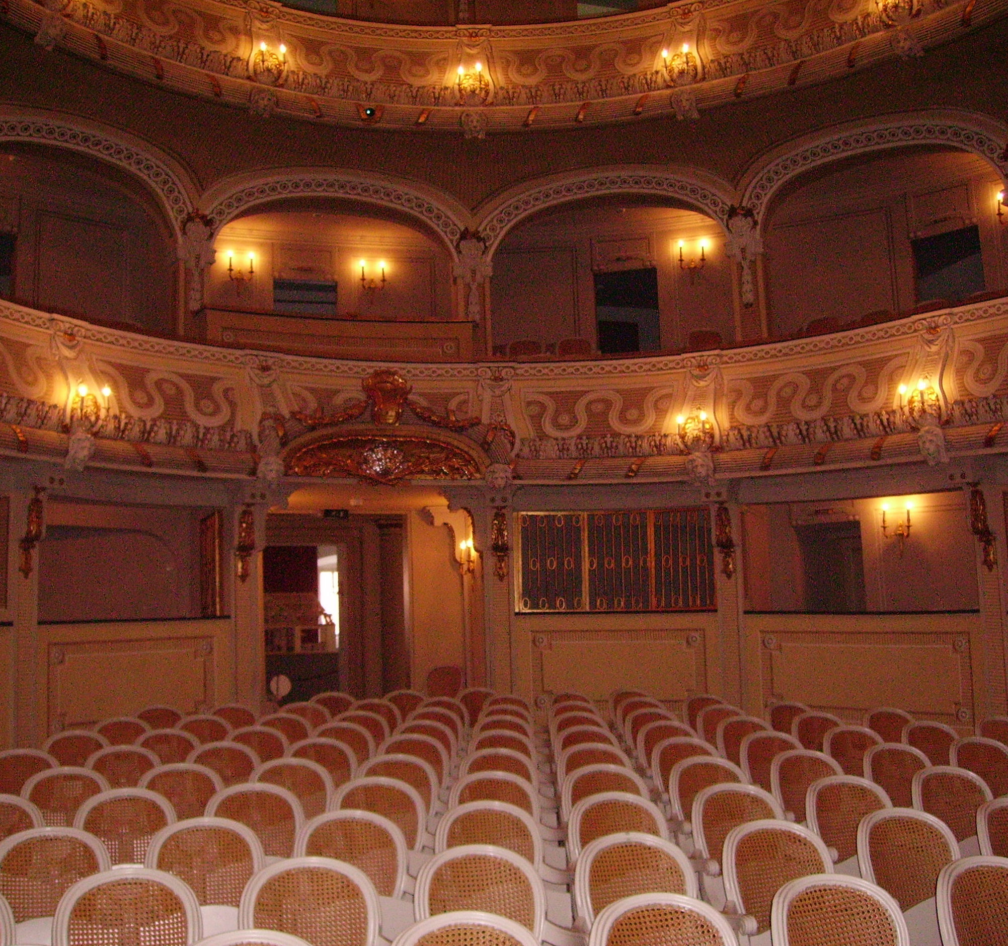 Schlosstheater Schwetzingen, Germany